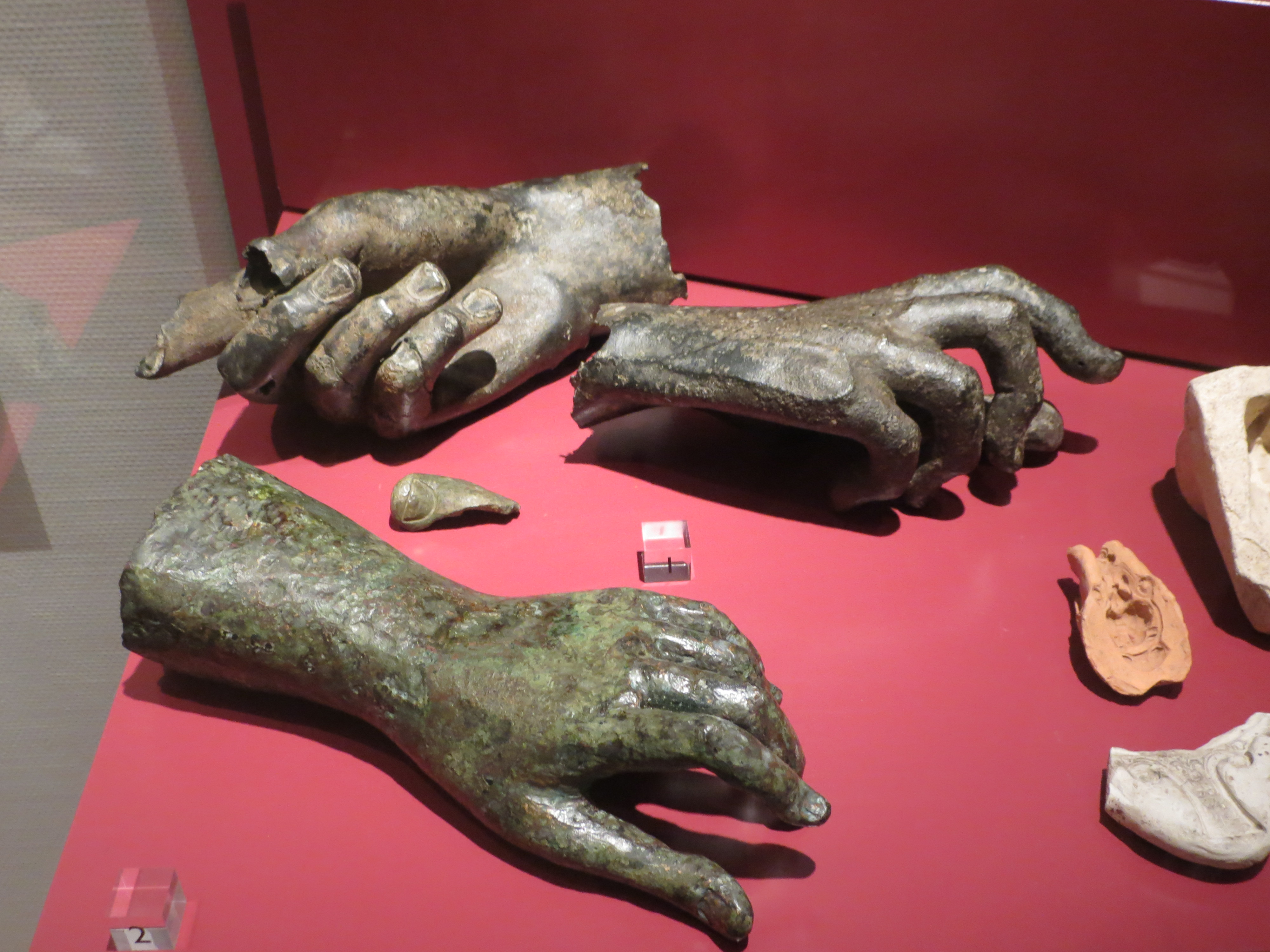 Three bronze hands of roman statues found in The Netherlands. Rear left Forum Hadriani, Voorburg (1771); rear right Hoogwerf, Naaldwijk (1933), Front Matilo, Leiden (2000). On display in Rijksmuseum van Oudheden Leiden , Netherlands.